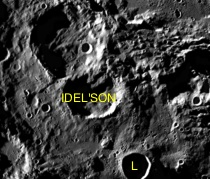 Part of the chart LAC-144 used for the presentation